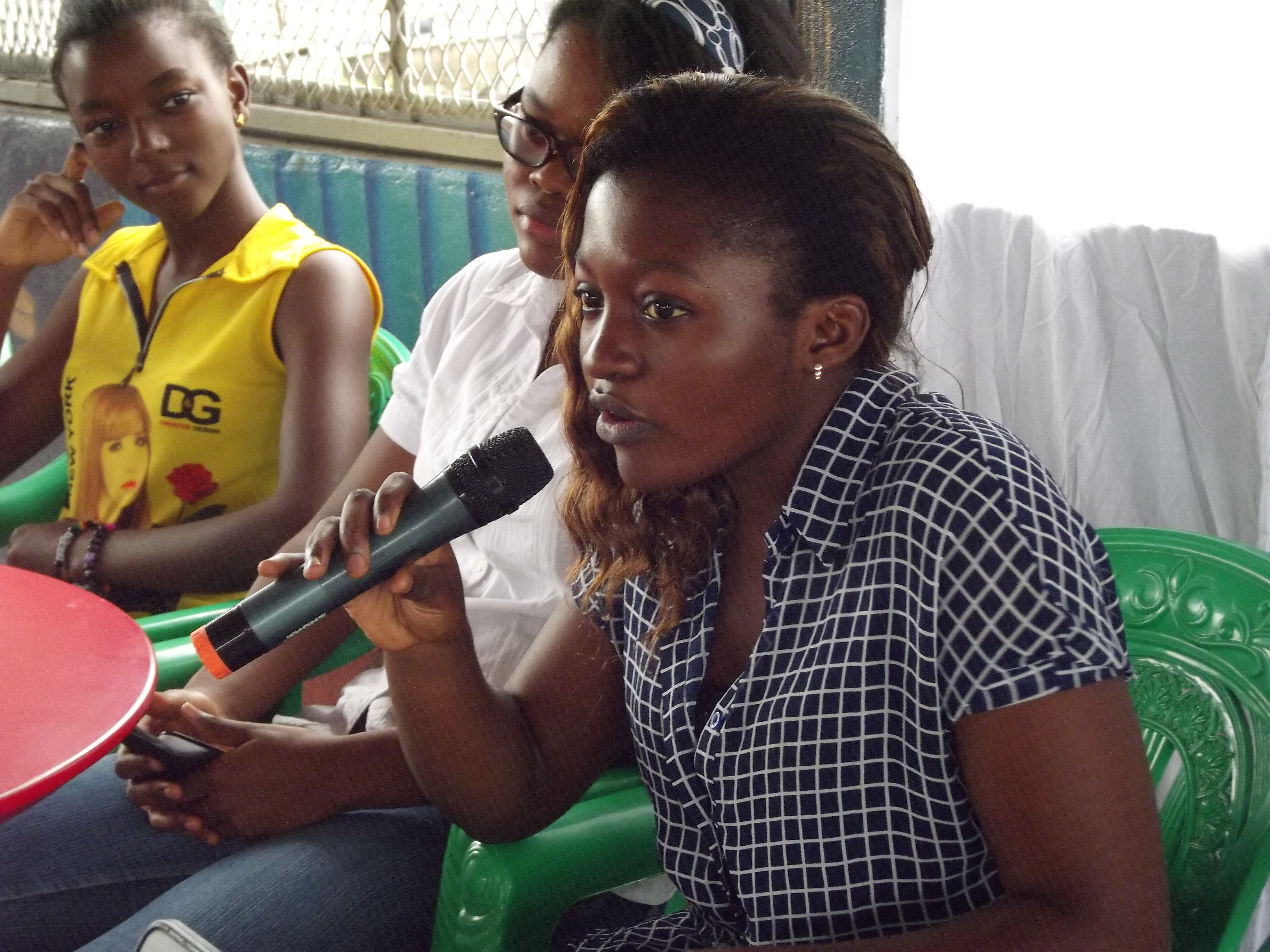 This is an image with the theme "Play" from: Cameroon